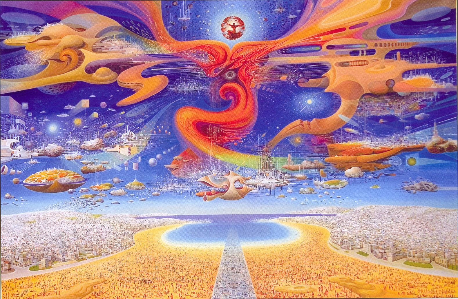 Painting "The Creator" of the Macedonian painter Vasko Taškovski